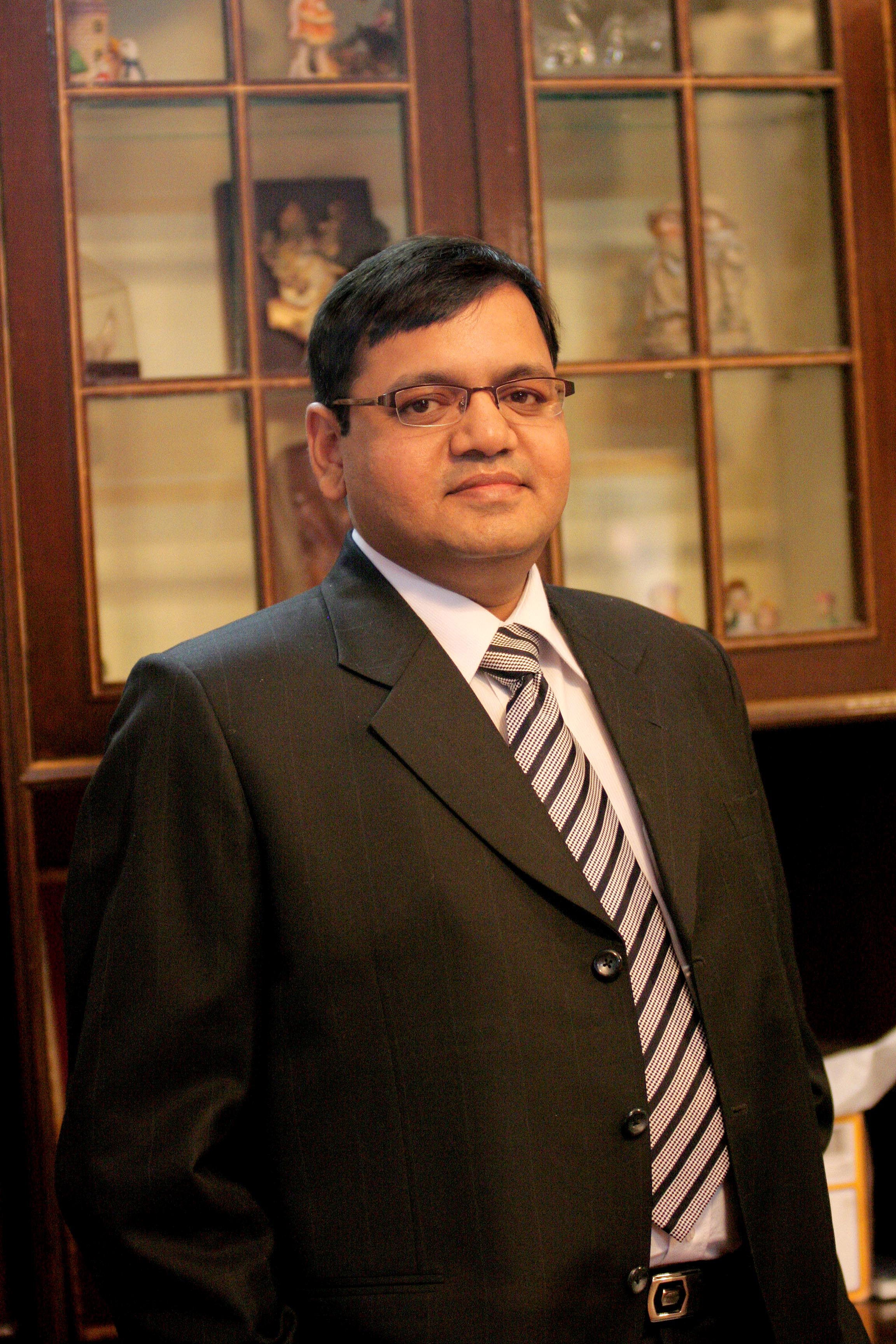 Pramod Maheshwari, Founder Career Point Ltd.